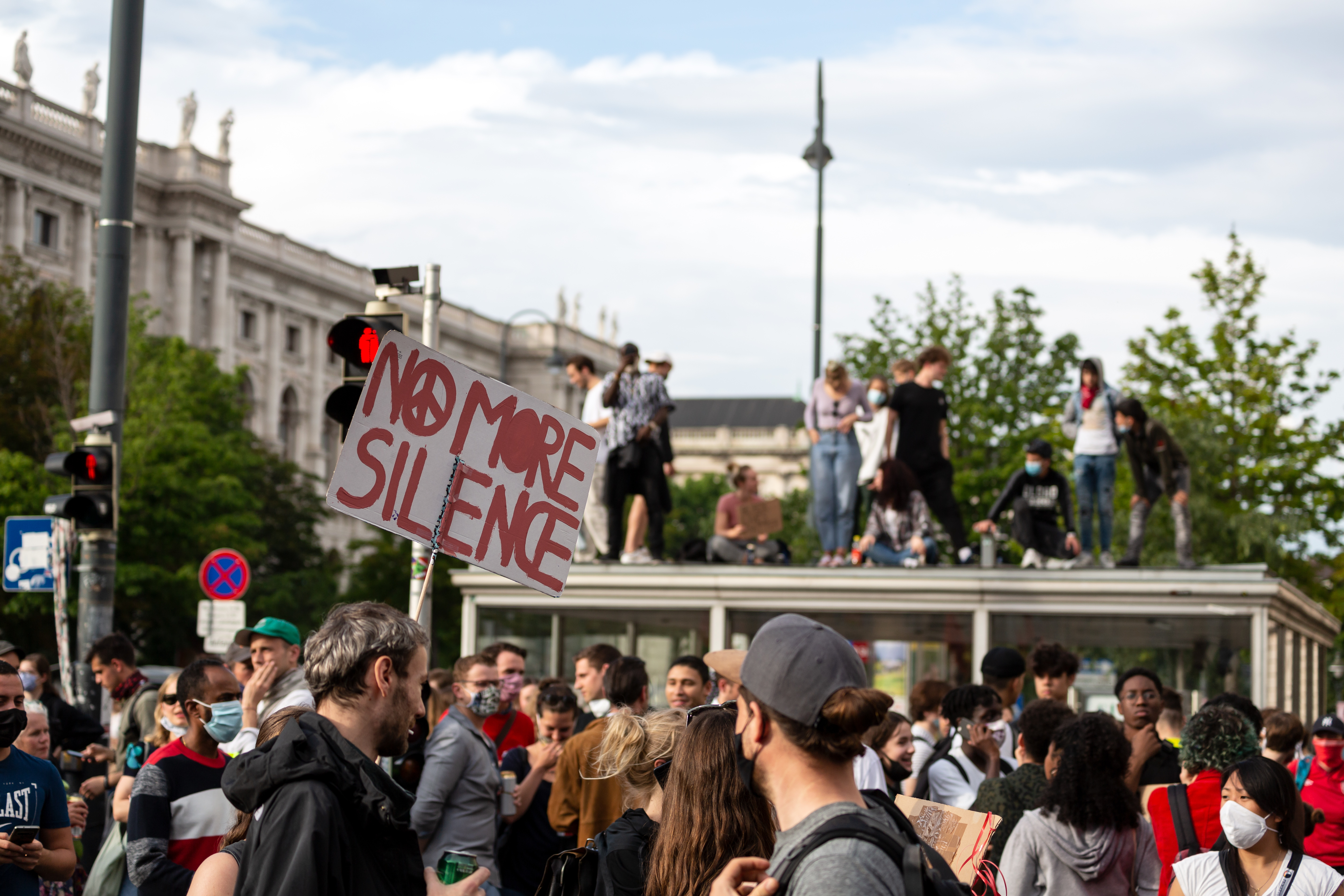 Protest Black Lives Matter (see also George Floyd protests) in Vienna,Austria.